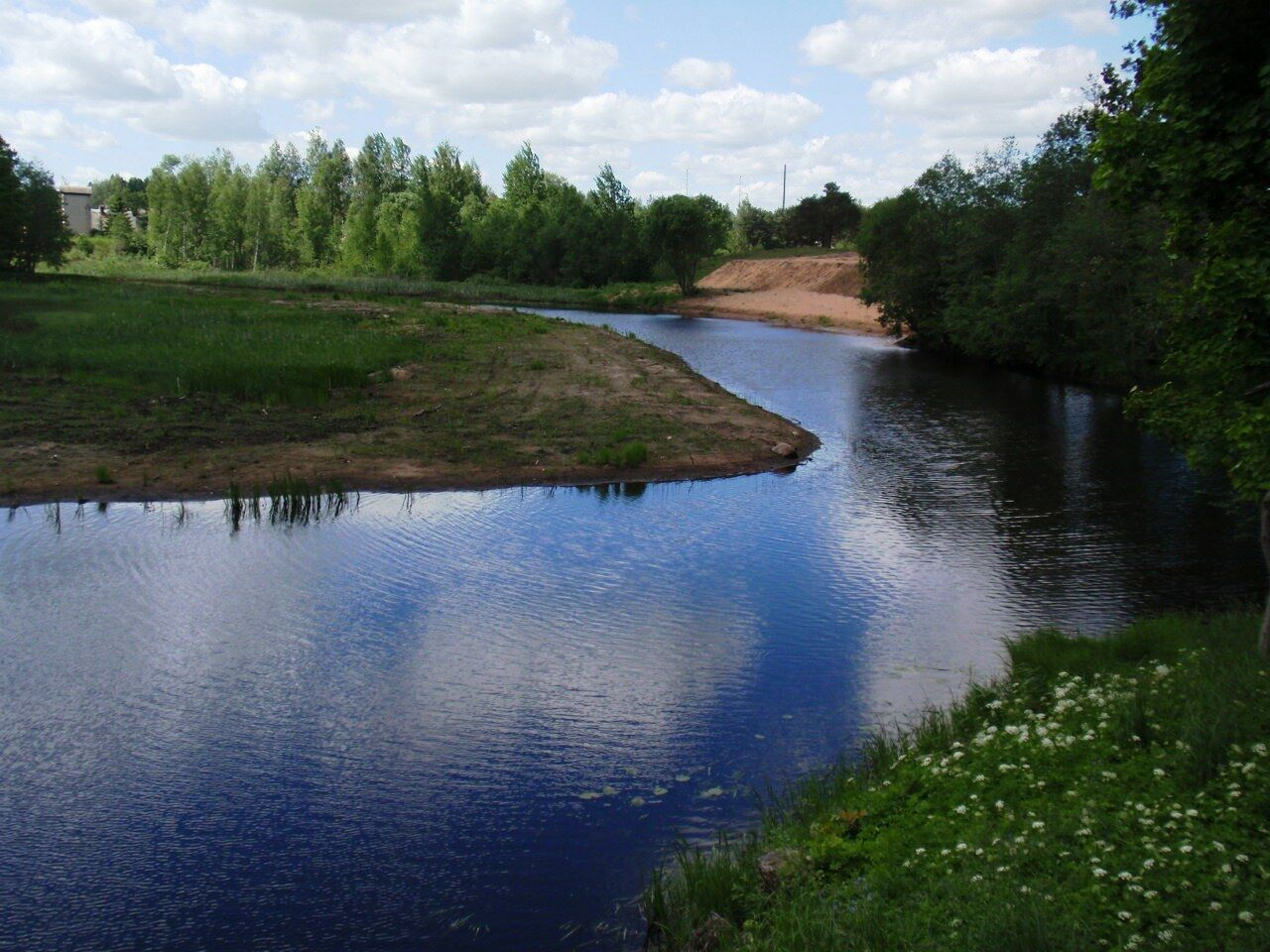 Pedele River (lv) in Valka, Latvia.